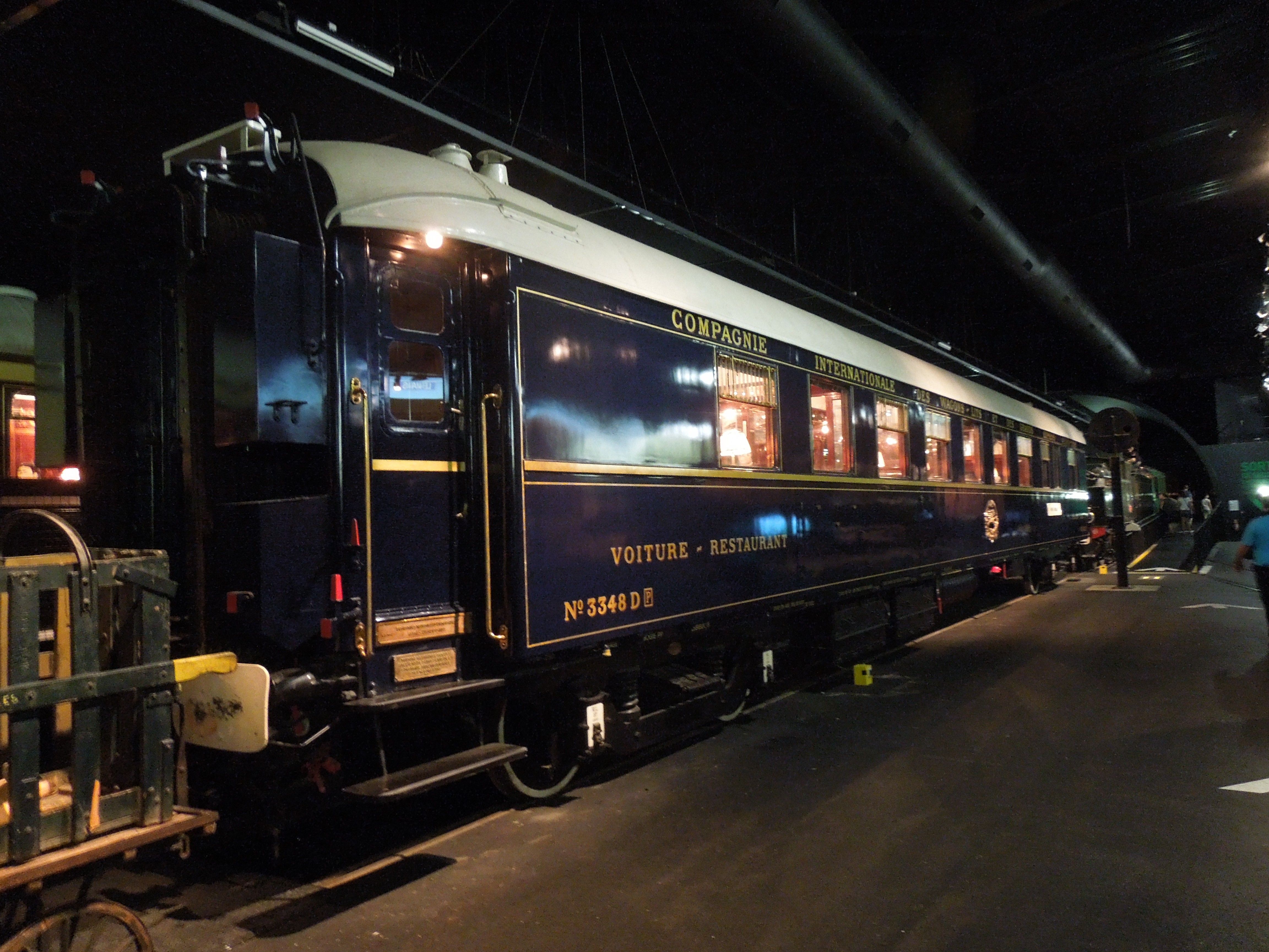 The Cité du train railway museum in Mulhouse